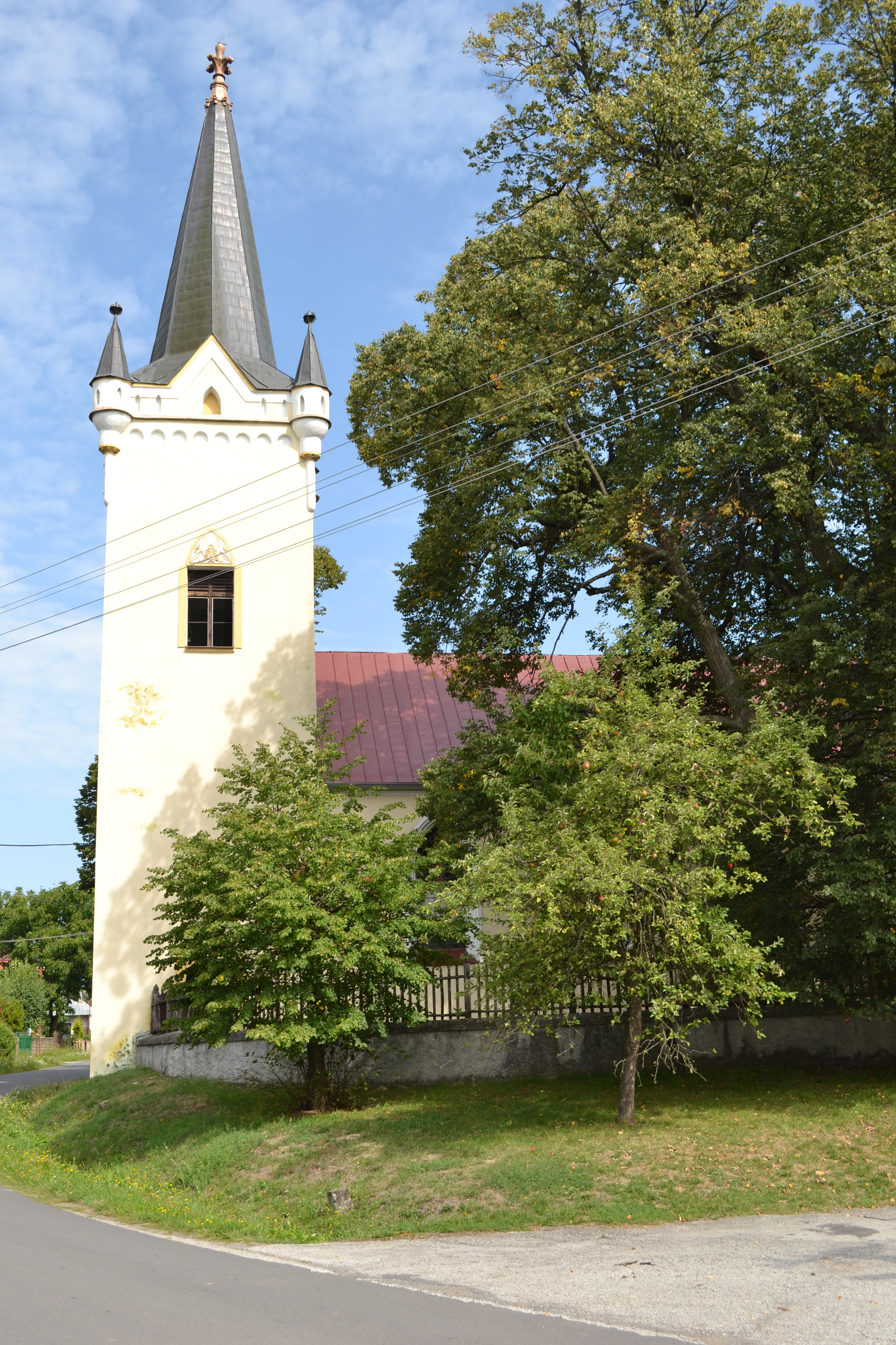 Dačov Lom, evanjelický kostol, románsko-gotická stavba pôvodne z 13. storočia